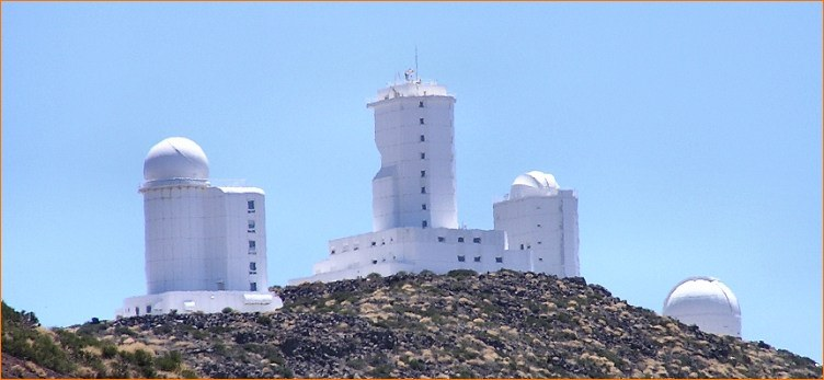 Astronomical Observatories in Izaña, Tenerife (Canary Islands, Spain).